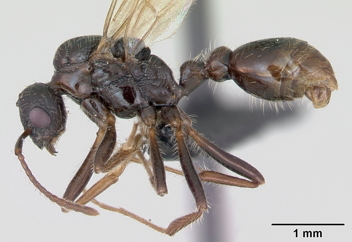 Profile view of ant Myrmica rubra specimen casent0172751.